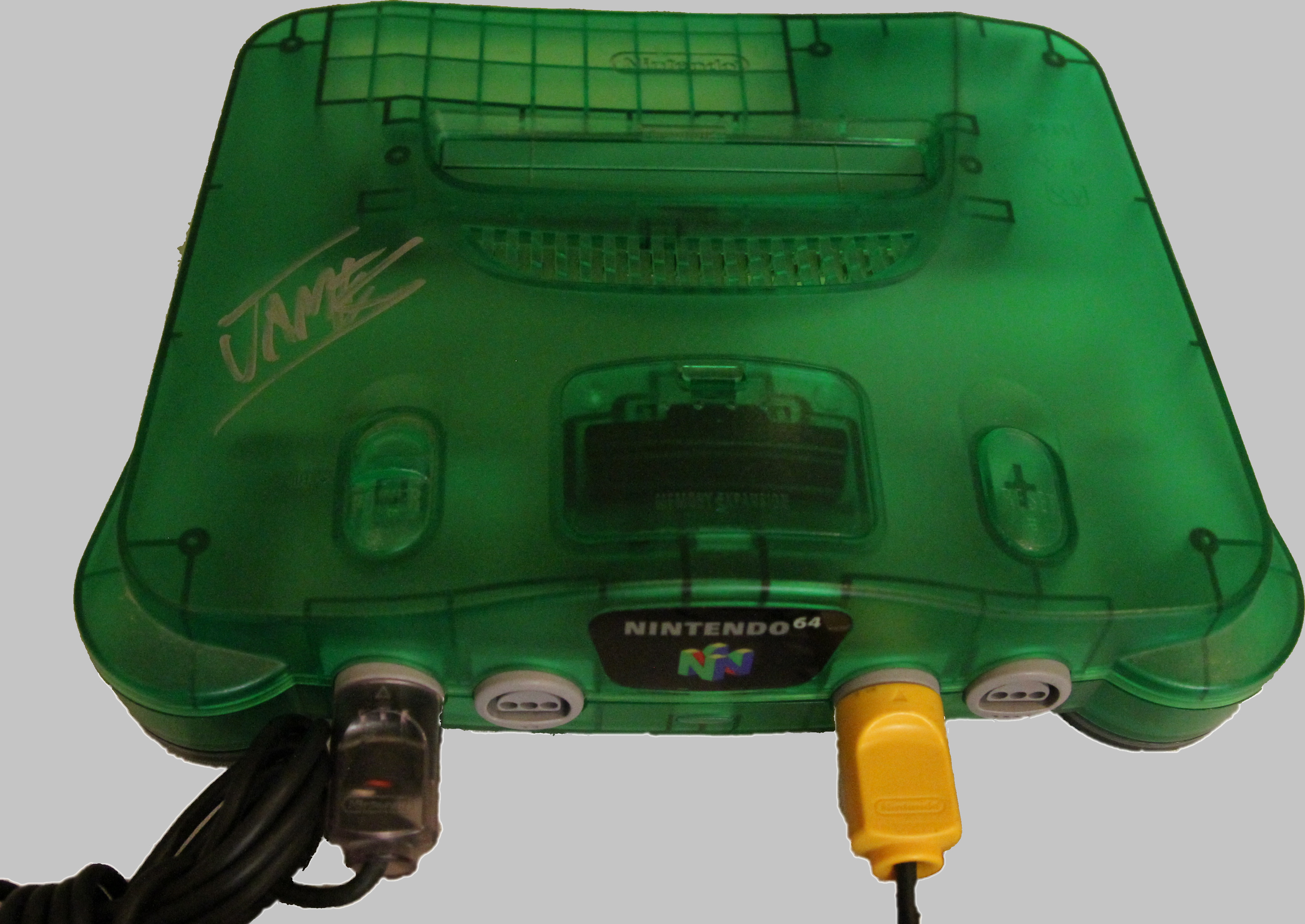 Nintendo 64 (Jungle Green) signed by James Rolfe AVGN